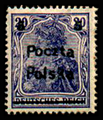 Postage stamp of German empire overprinted with Poczta Polska in Posen (Poznan), 5 pfennigs, 1918